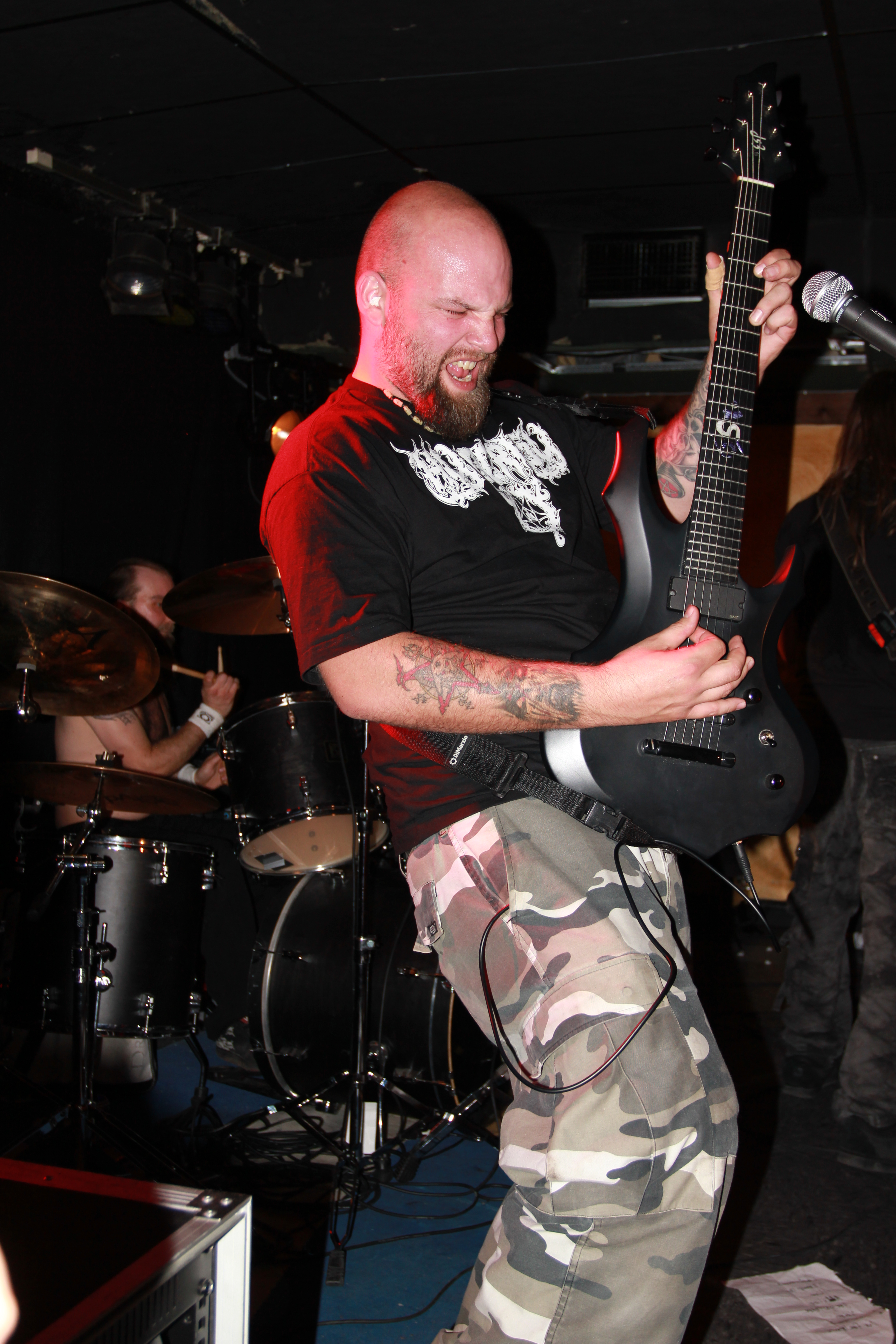 Metal band Scar Symmetry, live at King's Club, Avesta, Sweden.